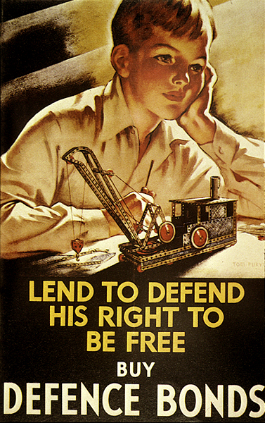 Designed by Tom Purvis and believed to feature his son with a Meccano toy.